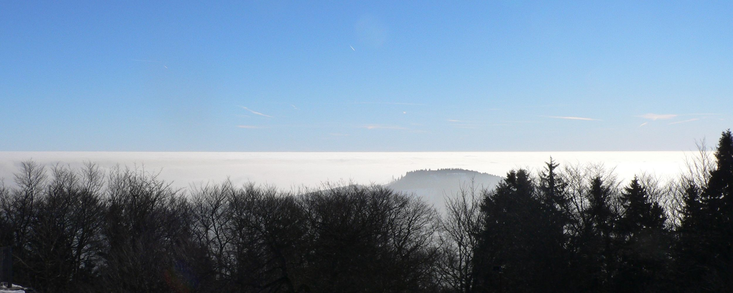 View from the Feldberghof of the Großen Feldberg/Taunus, the Altkönig and the Rhein-Main-Ebene Das Bild entstand bei Inversionswetterlage, die im Winter 2005/2006 häufig vorkam.